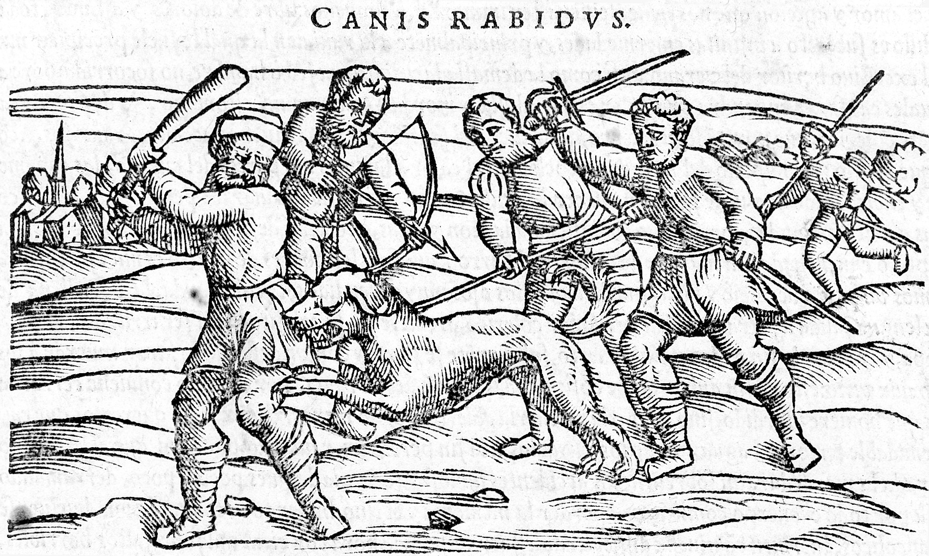 Rabies: Slaying a mad dog Rare Books Keywords: Materia Medica; Rabies; Pedanius Dioscorides